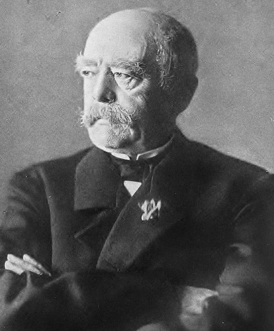 edited copy of image originally found at